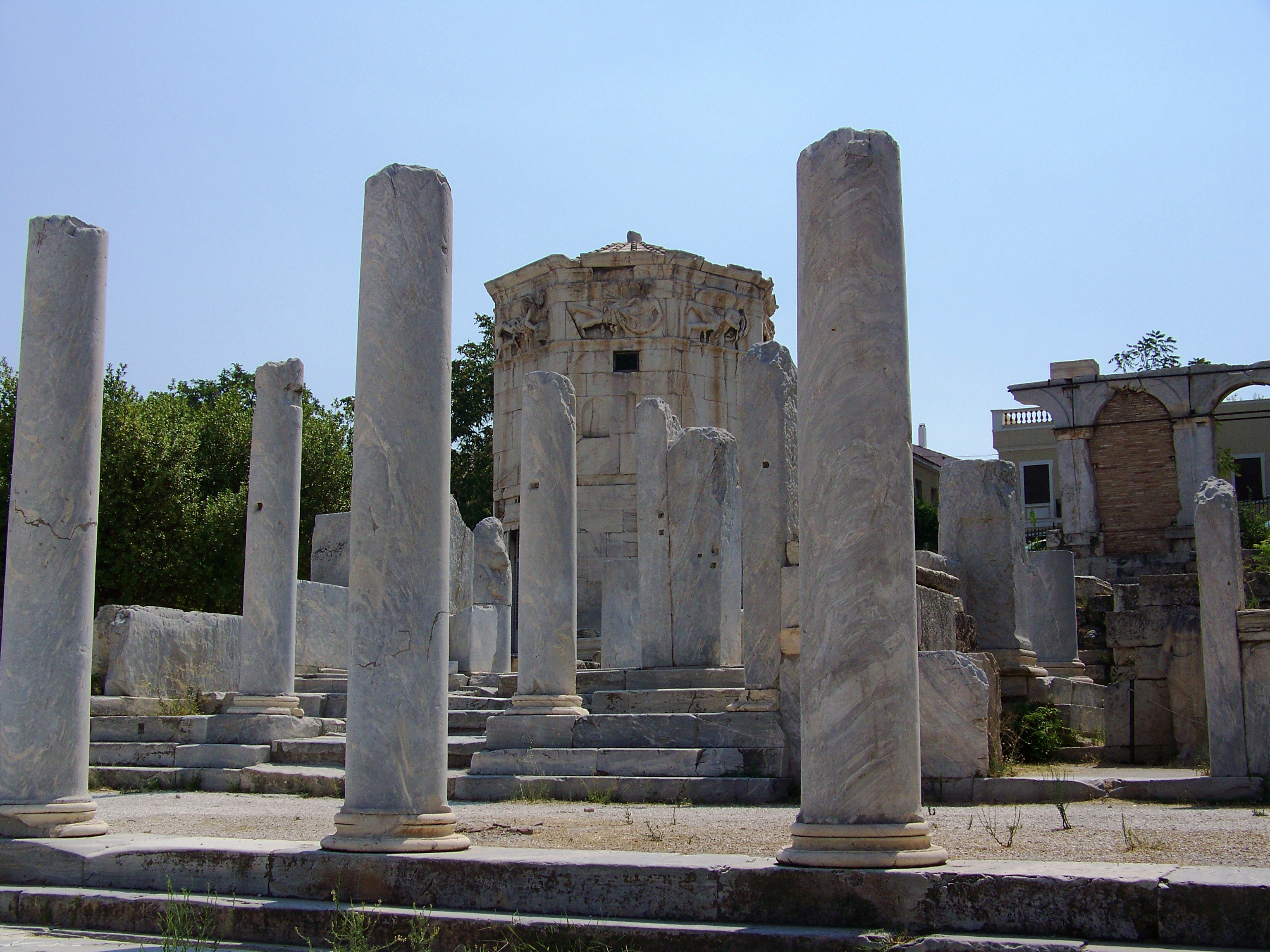 The tower of the winds in the ancient Roman forum in Athens, Greece.